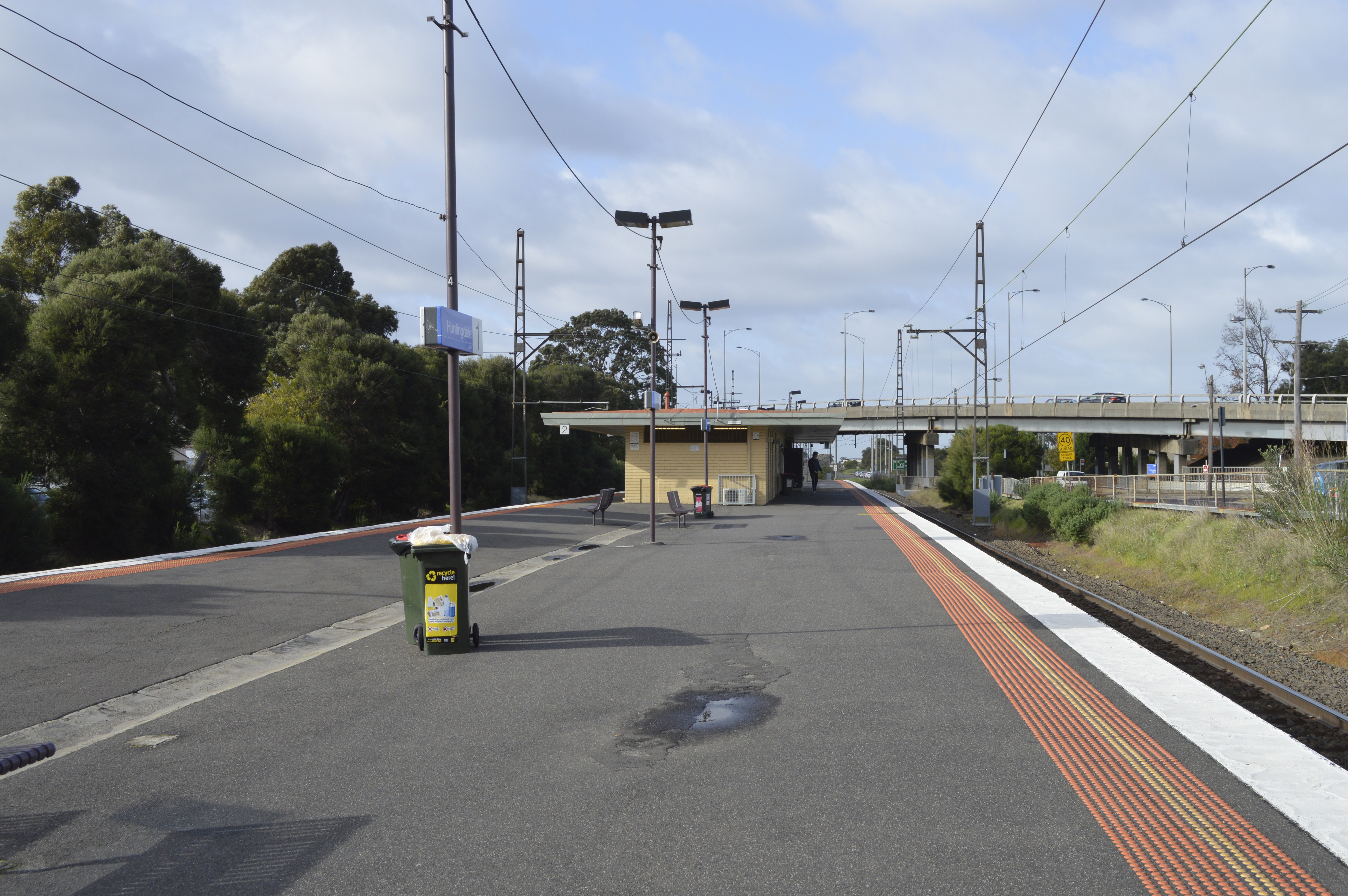 Looking in the down direction